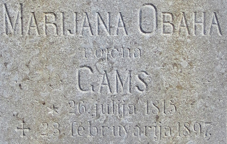 Gravestone detail: "Marijana Obaha, rojena Gams, * 26. julija 1815. † 23. februvarija 1897." (Marijana Obaha, née Gams, July 26, 1815 – 23 February 1897) in Sava, Municipality of Litija, Slovenia with an archaic spelling of 'February'.